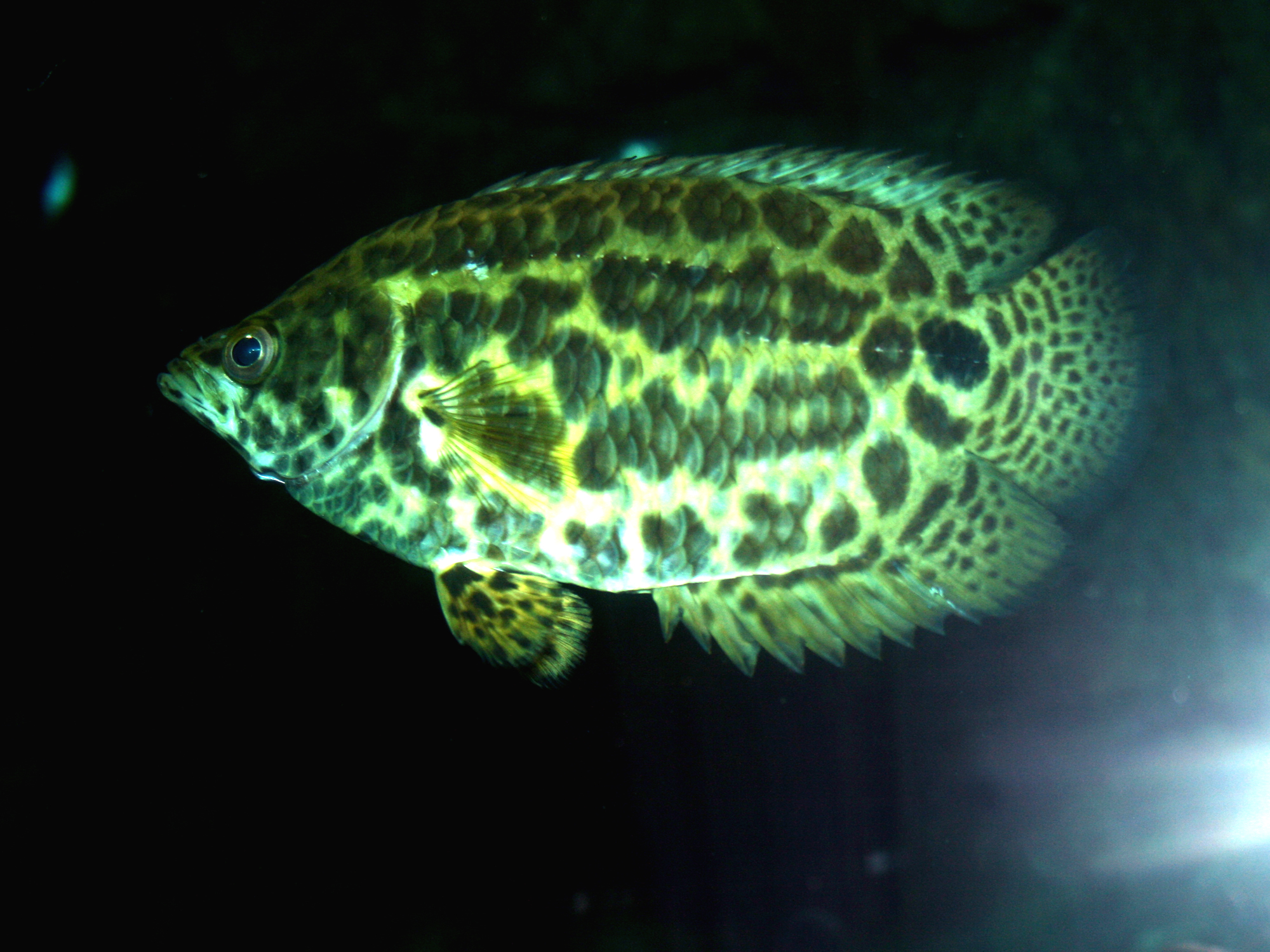 Ctenopoma acutirostre. Photo taken in Prague (Czech Republic).